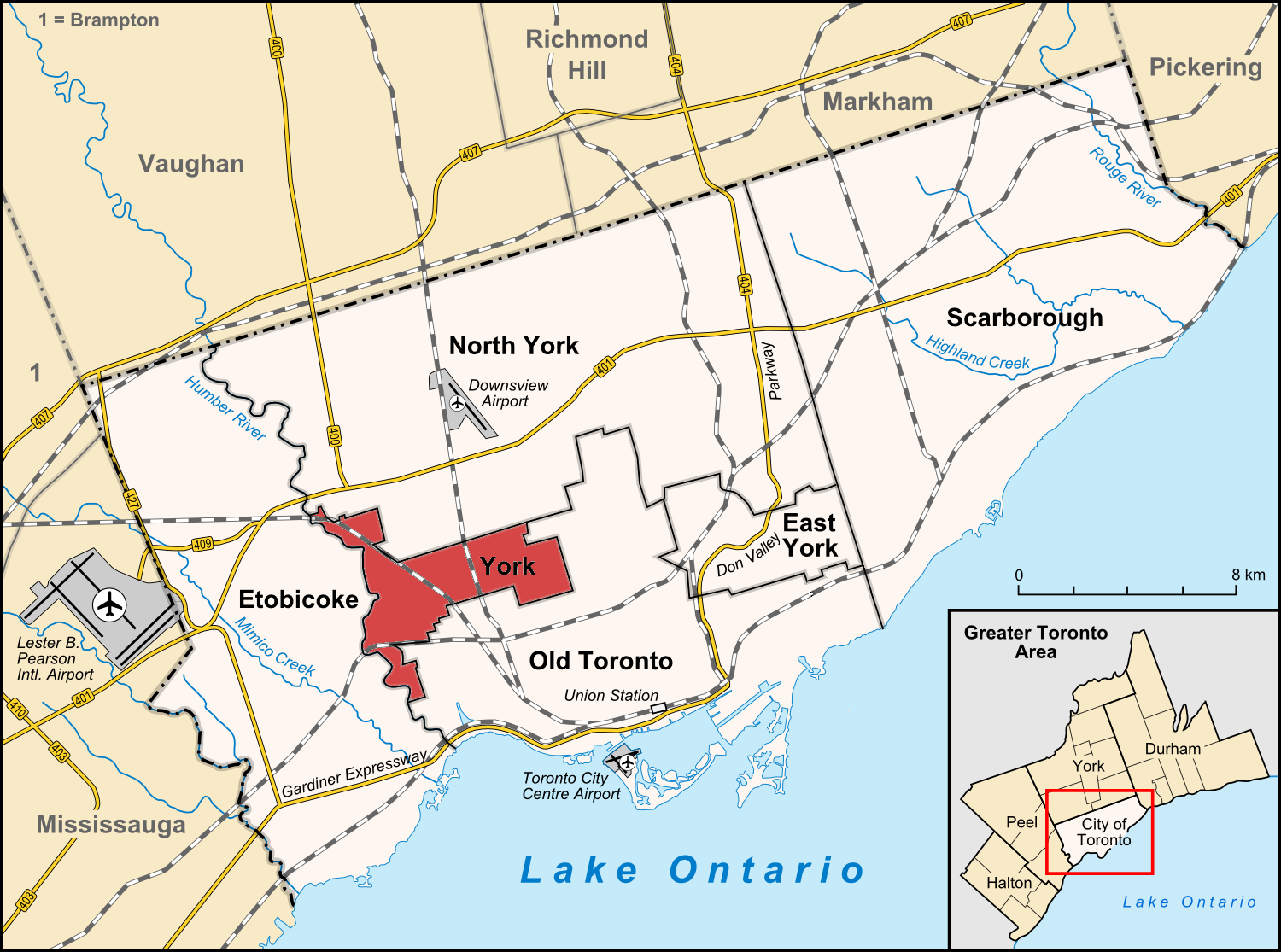 Map of Toronto